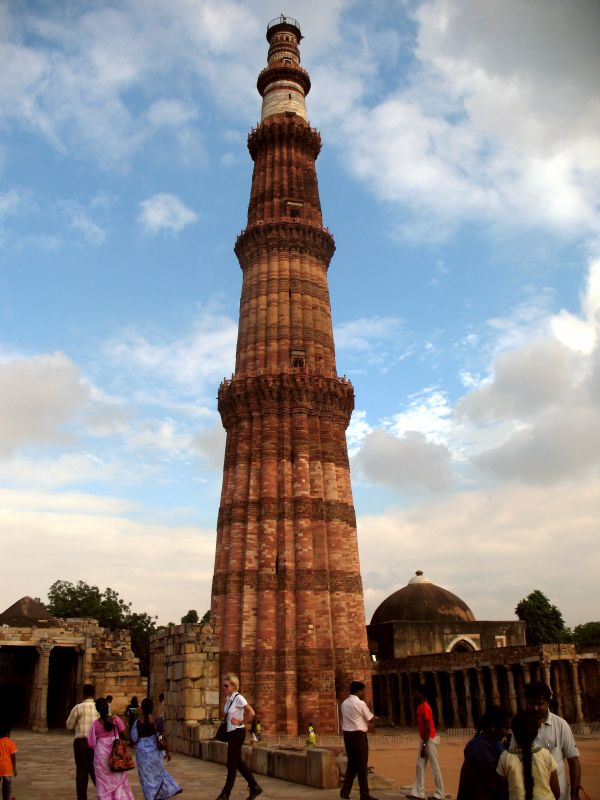 Qutab Minar, Delhi, India